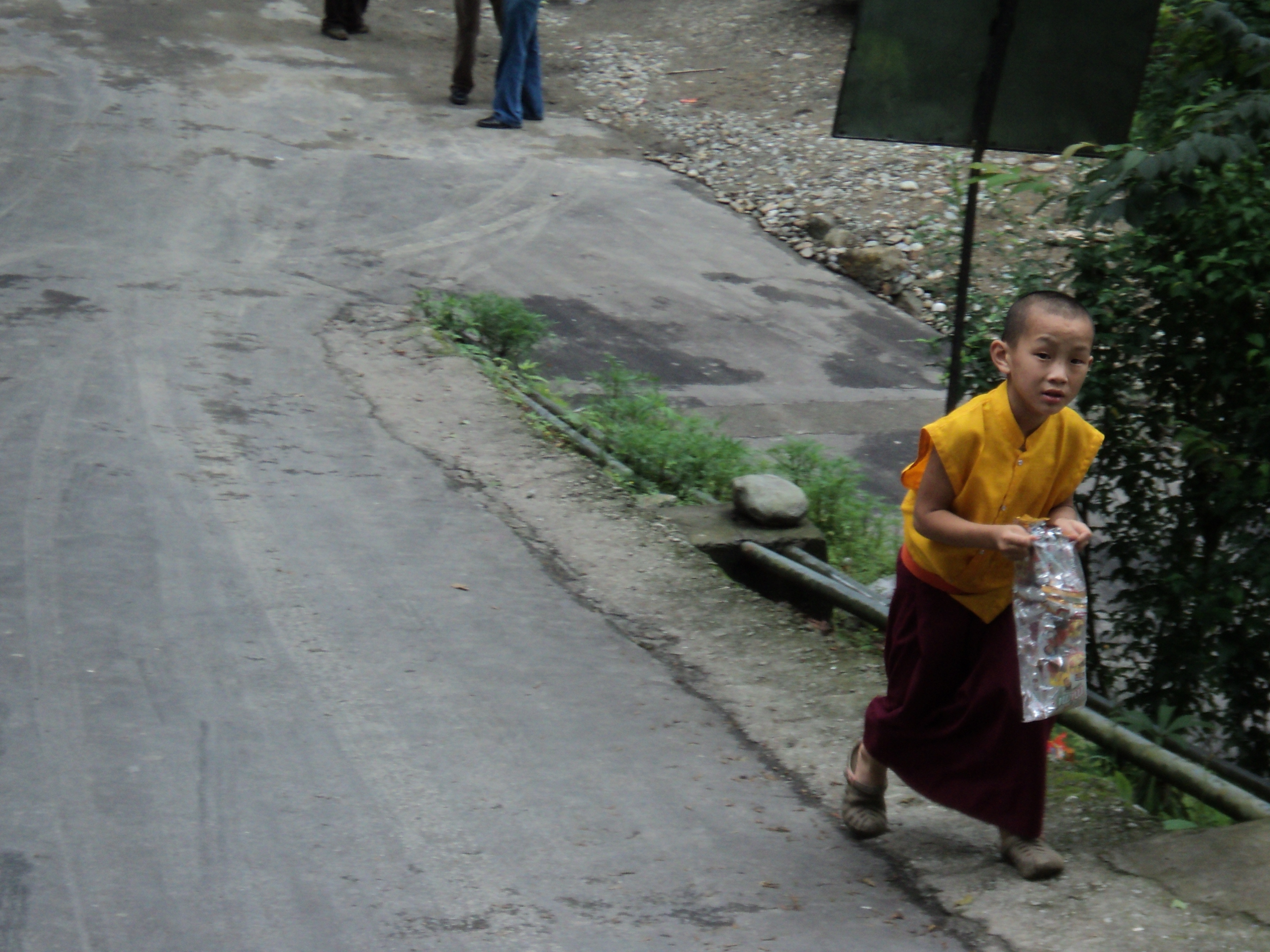 A young monk